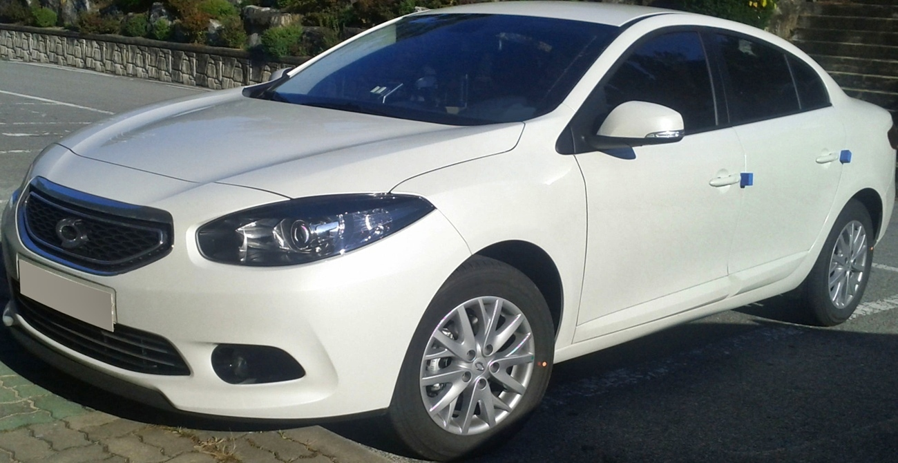 Renault Samsung New SM3